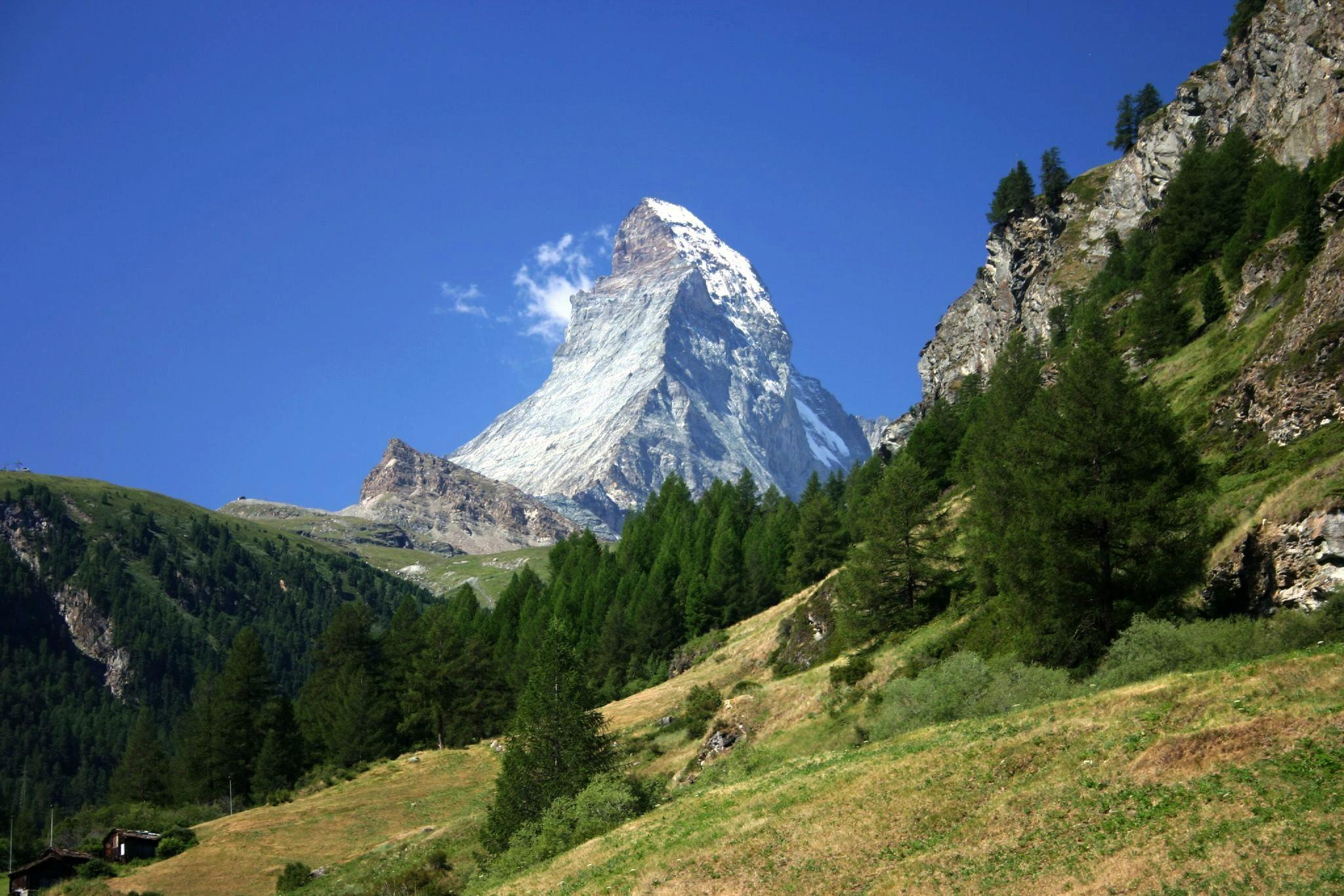 Matterhorn from the north side.